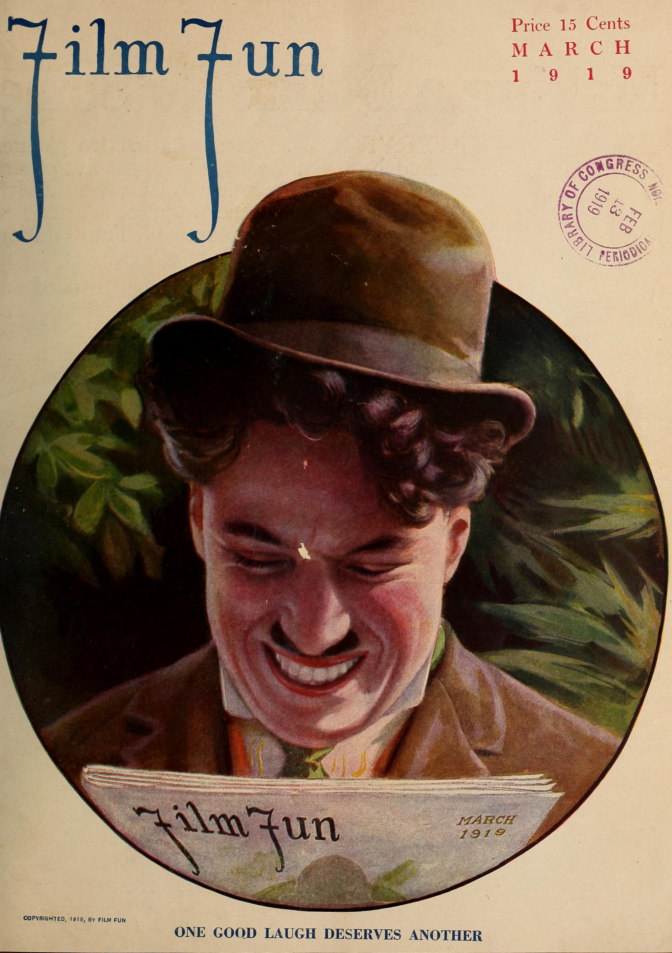 Charlie Chaplin reads Film Fun